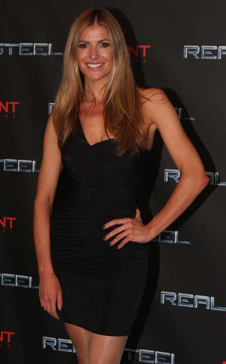 Laura Csortan at the film premiere of Real Steel.